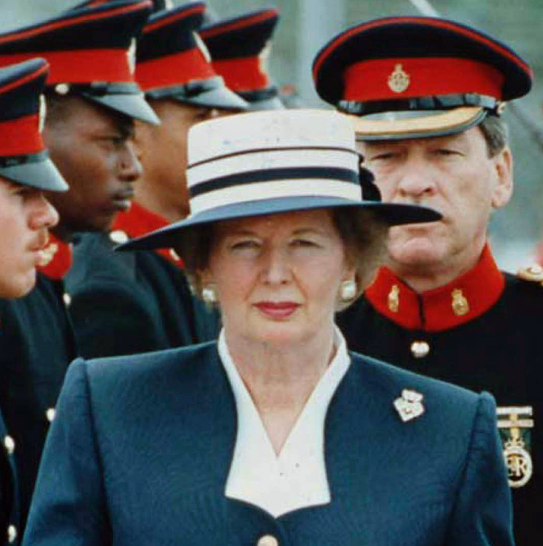 Margaret Thatcher reviewing Bermudian troops